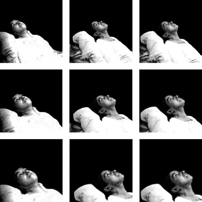 Jean-Martin Charcot Series inspired by French neurologist Jean Martin Charcot studies in Neurosis. Charcot (1825-1893) used hypnotism to treat hysteria and other abnormal mental conditions and he had a profound influence on many farther neurologists, psychologists and psychotherapists as Sigmund Freud (1856-1939), father of psychoanalysis. - All materials from “Iconographie photographique de la Salpêtrière” (Jean Martin Charcot,1878).